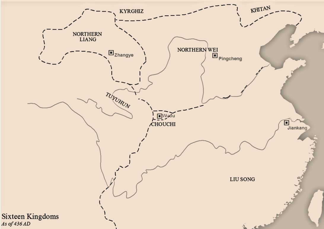 Map of Sixteen Kingdoms as of 436 AD